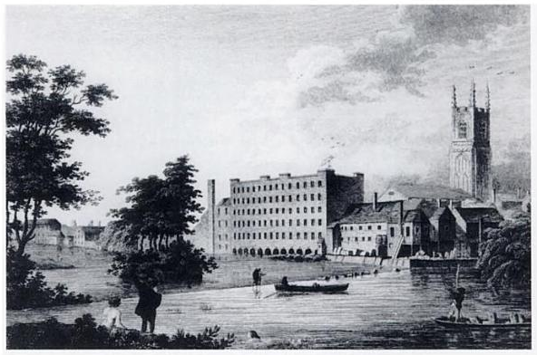 A print of Lombe's Mill Derby, which became a tourist attraction because it believed to be the first fully mechanised factory, using 3 'new' silk throwing machines. Commented on by Daniel Defoe in the 1770s and Boswell in 1777.